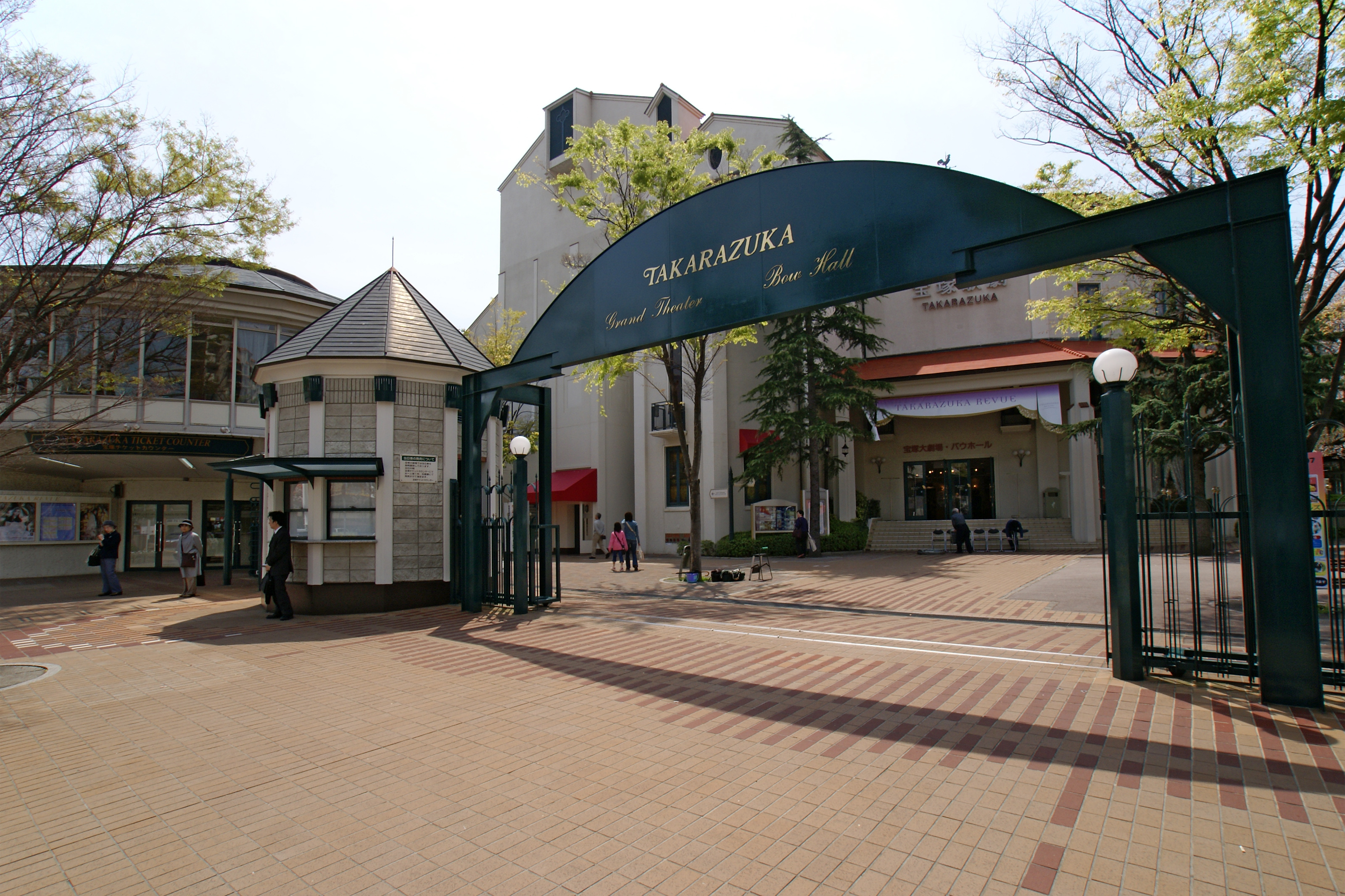 Takarazuka Grand Theater and Bow Hall in Takarazuka, Hyogo prefecture, Japan